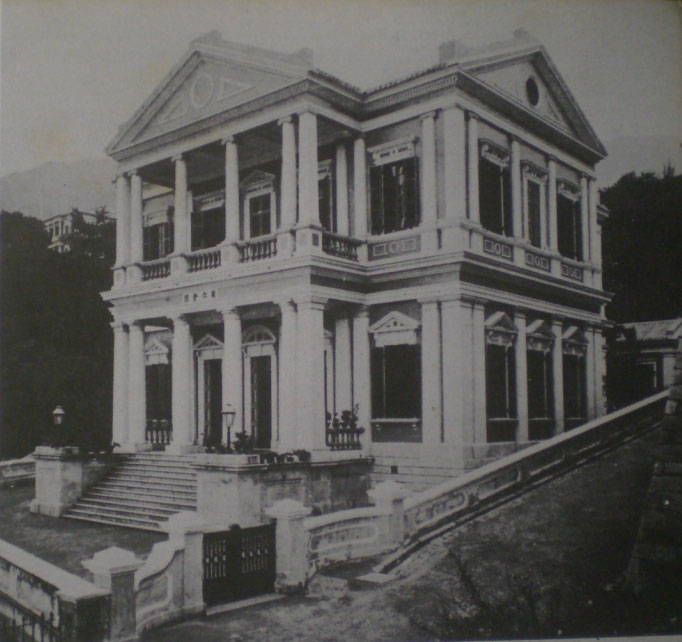 雍仁會館, Zetland Hall, was also named Zetland Lodge, which was the handquarters of the freemasons, built in 1846 situated in Zetland Street, Central, Hong Kong